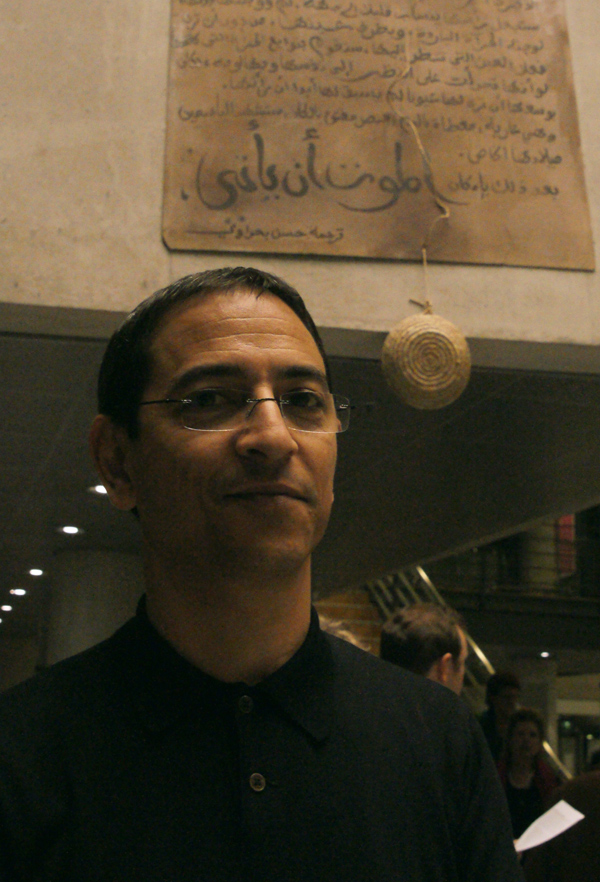 Youssouf Amine Elalamy, Moroccan writer in front of the finishing part of his latest novel "Nomade", a literary installation, at the exhibition of the work at Royal Danish Library in Copenhagen, december 2009